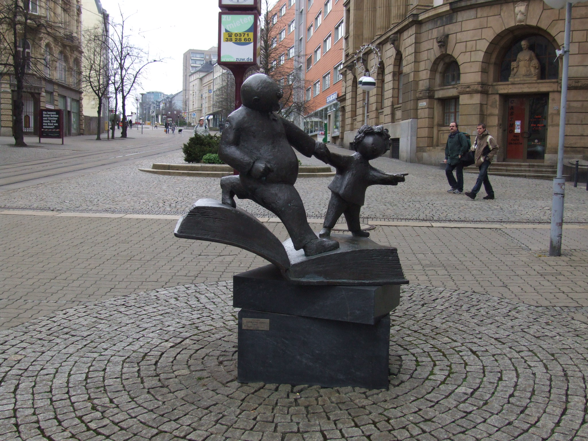 Memorial sculpture for Erich Ohser 1903-1944 who committed suicide in prison awaiting trial. He was a cartoonist and artist famous for his Vater und Sohn characters and his critical political cartoons. He worked under the name of e.o.plauen. The sculpture is outside the museum dedicated to his work at Nobelstraße 7, Plauen in Saxony.